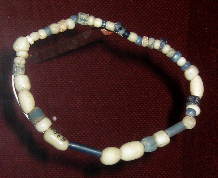 Trade beads dated from circa 1740 found by archaeologists in a Wichita Village site along the Arkansas River in north-central Oklahoma, collection of the Oklahoma History Center